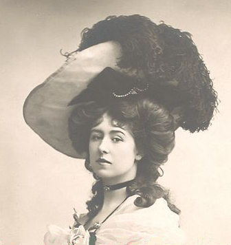 "Miss Alice De Winton" (1864–1941), English actress, from a theatrical postcard (detail).